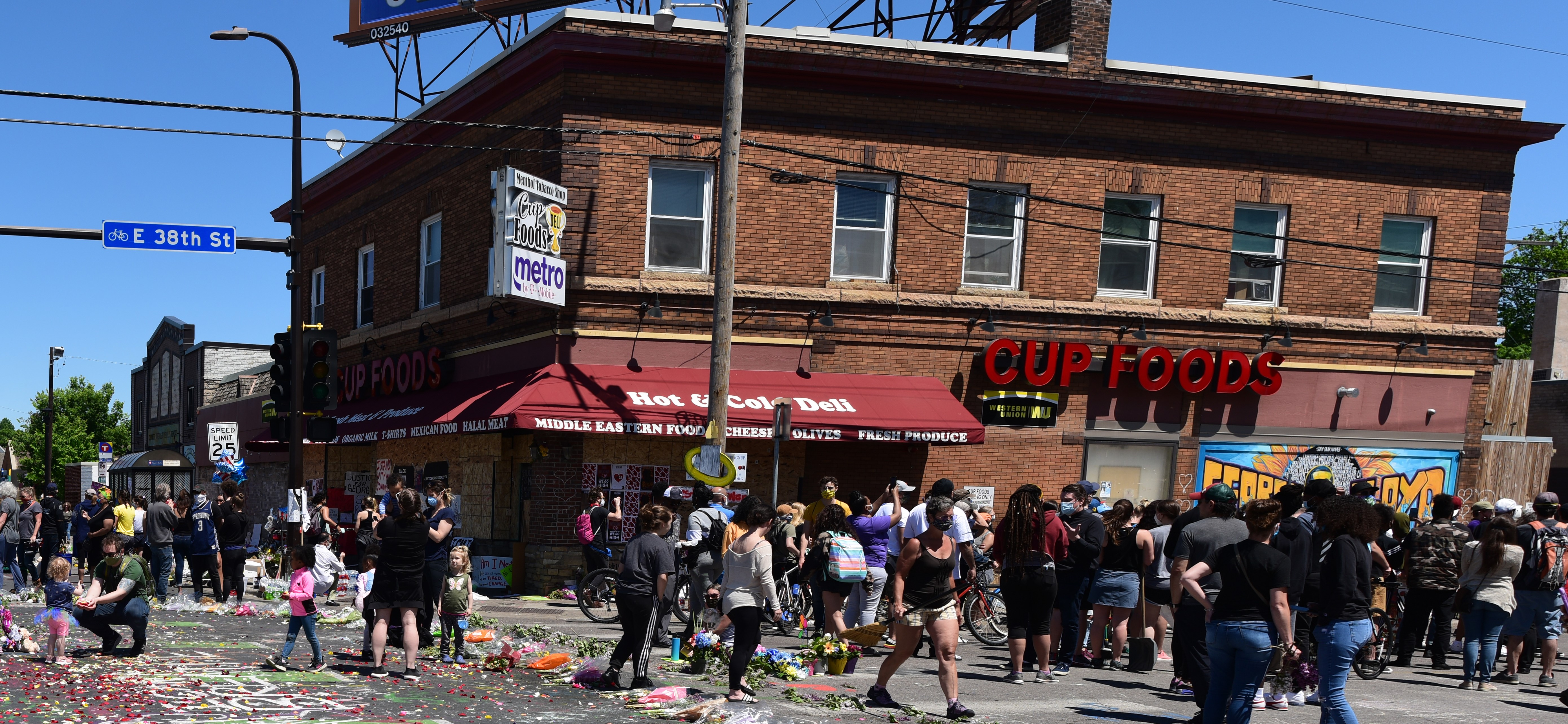 Location where George Floyd died, May 25, 2020